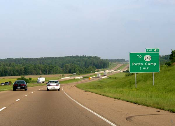 Interstate 22 (Corridor X and U.S. Route 78) eastbound at Potts Camp, Mississippi